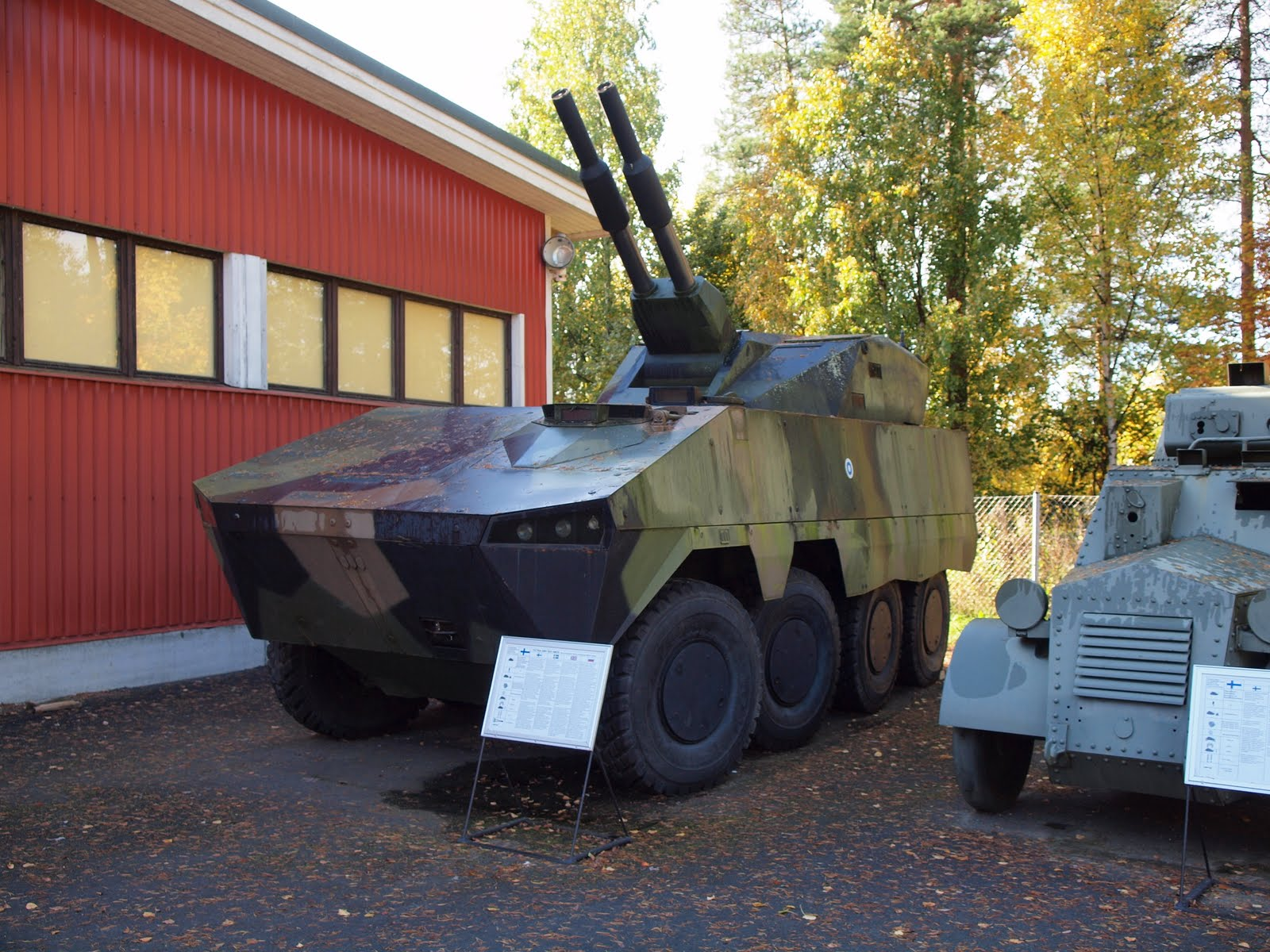 Mock-up of AMOS on Patria AMV mockup at Parola Tank Museum.